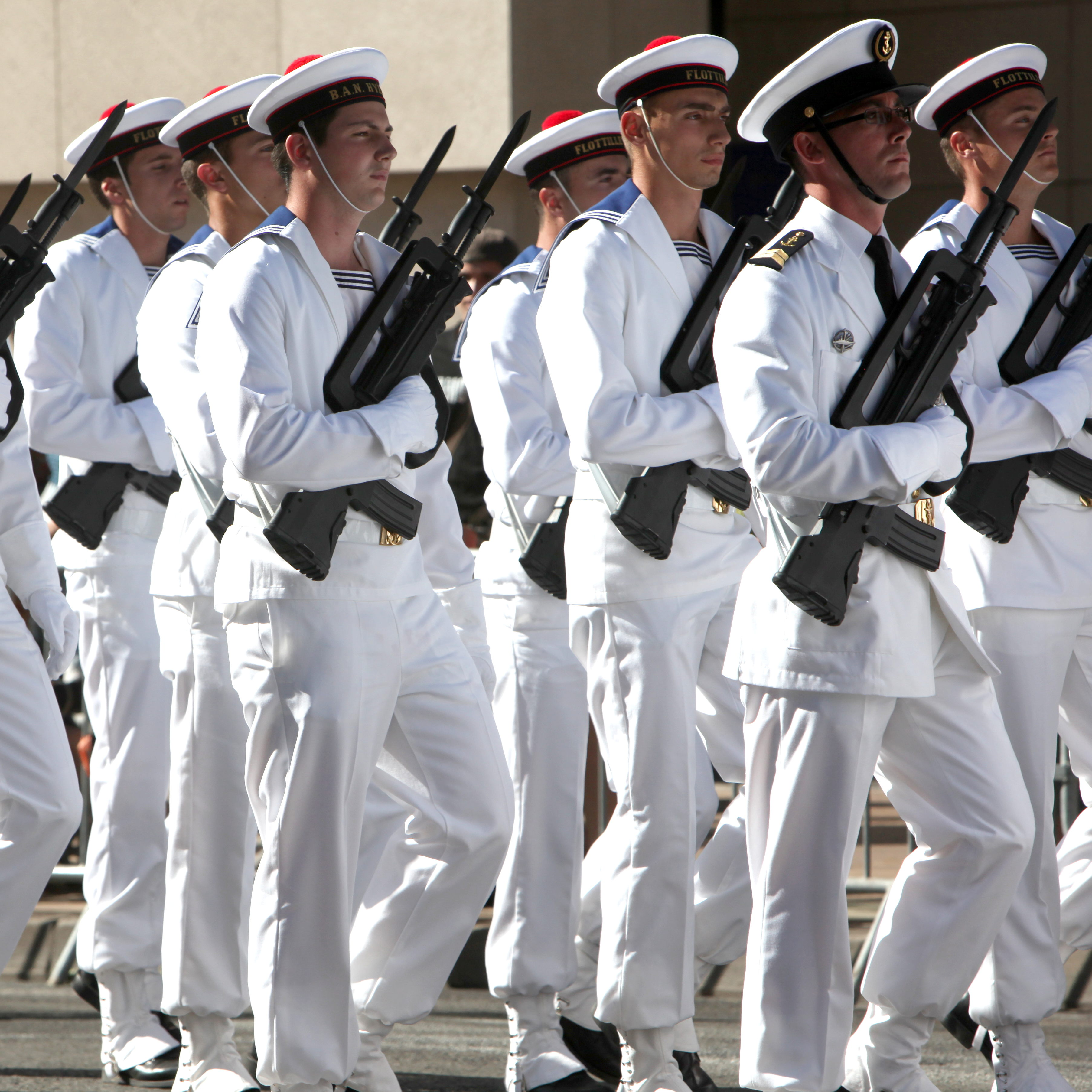 Members of the aéronautique navale during the 2011 Bastille Day parade in Toulon